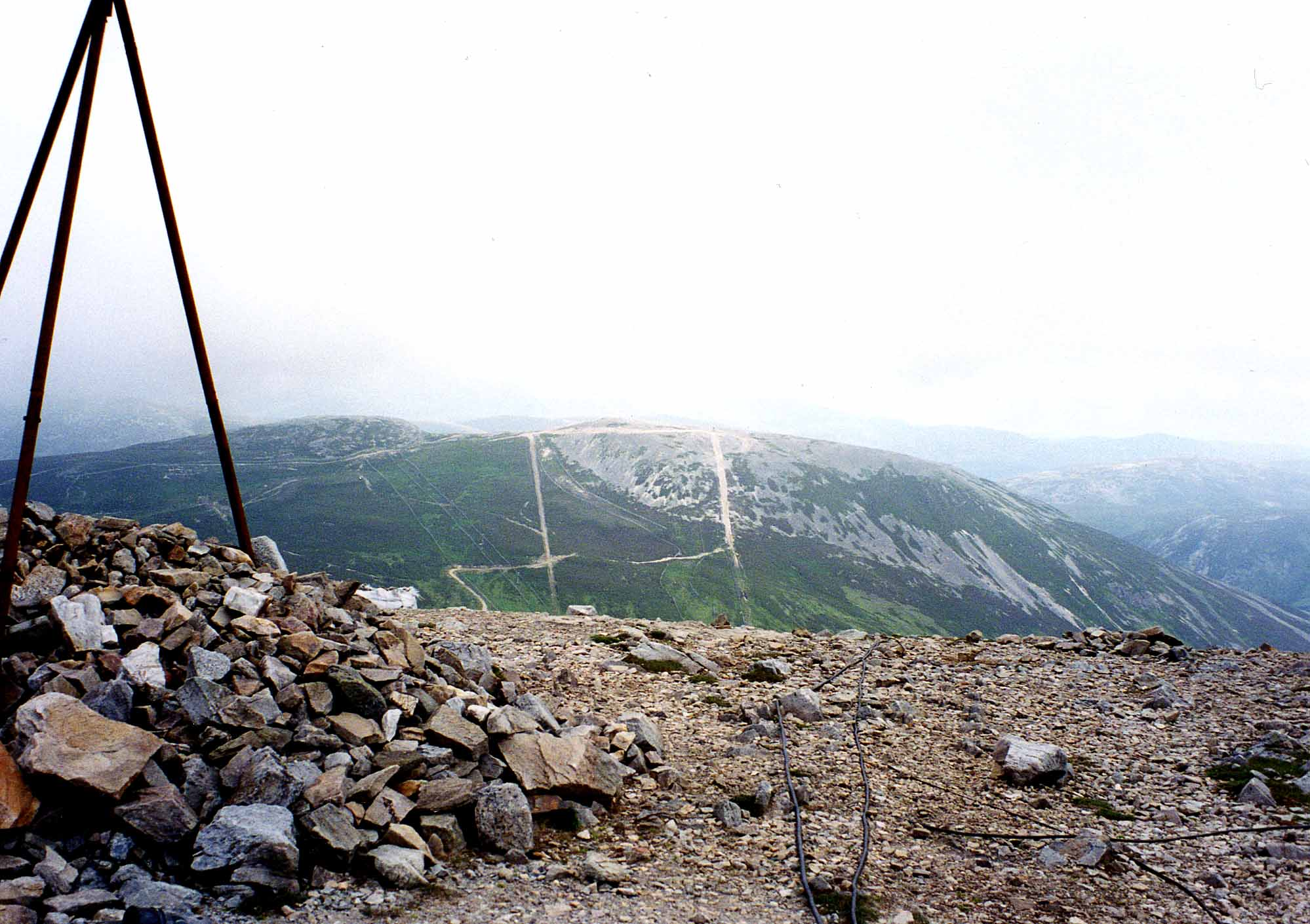 Carn Aosda seen from the Cairnwell. Personal picture taken by Mick Knapton